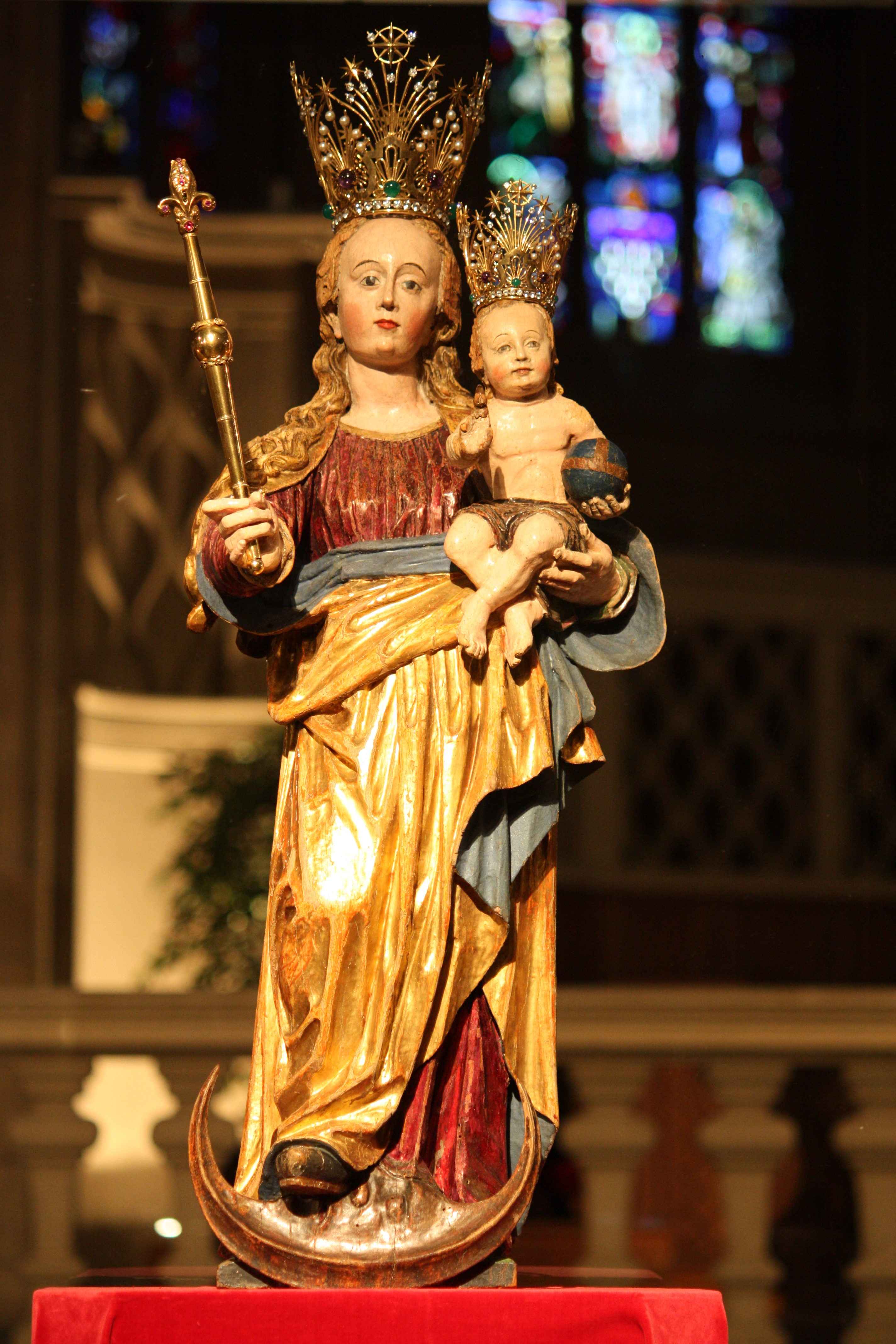 The statue of the consolatrix afflictorum in the cathedral of Luxembourg, after the entire conservation-restoration by Muriel Prieur, 2008